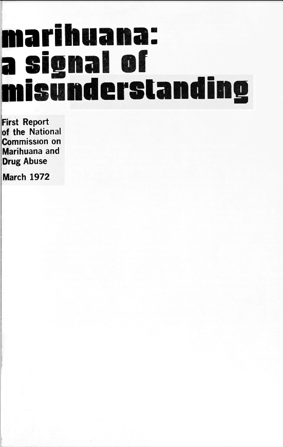 Cover page of the Shafer Commission Report (First Report of the National Commission on Marihuana [sic] and Drug Abuse)